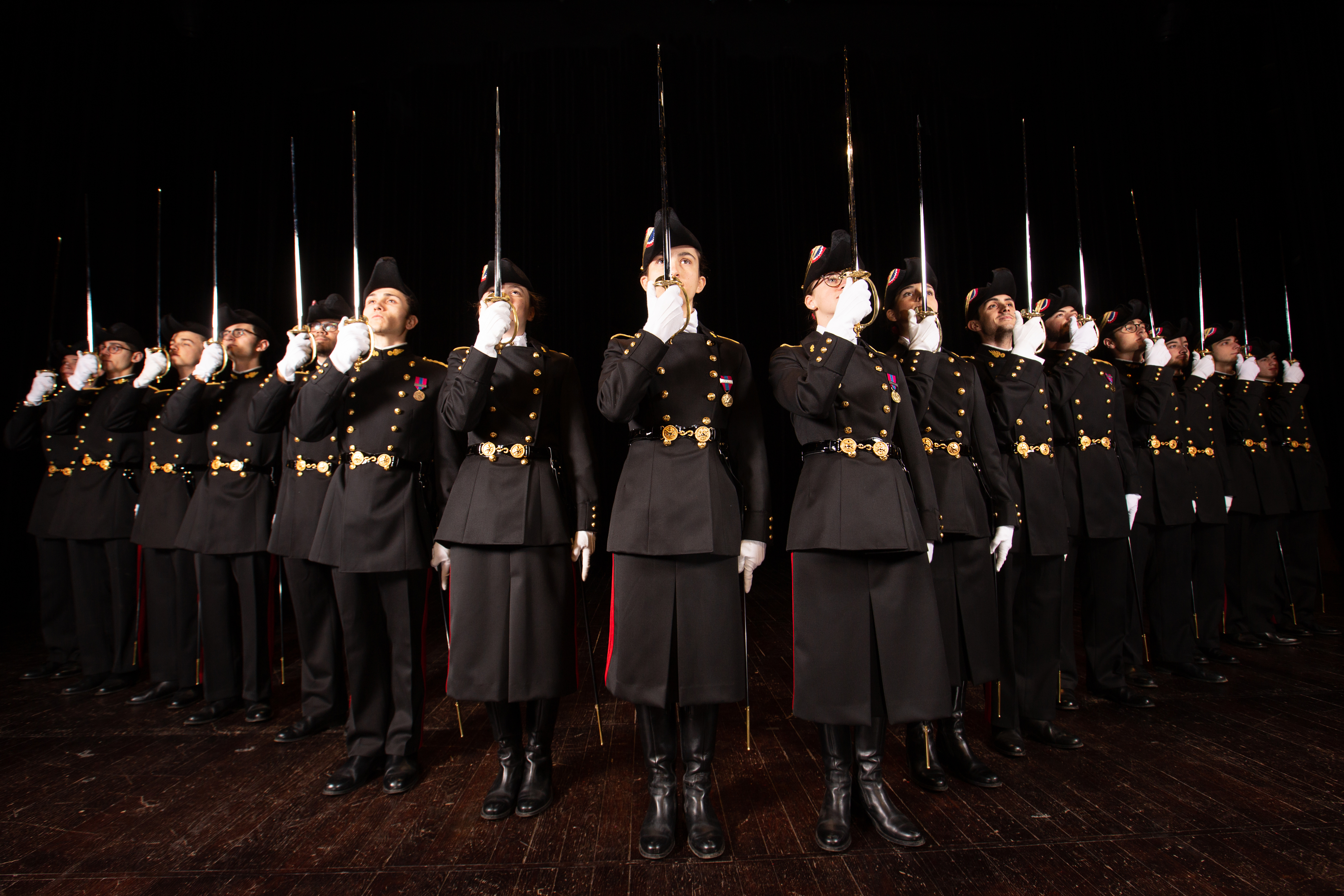 Kestellation - Uniform of École polytechnique Crédit photographique : © École polytechnique - J.Barande